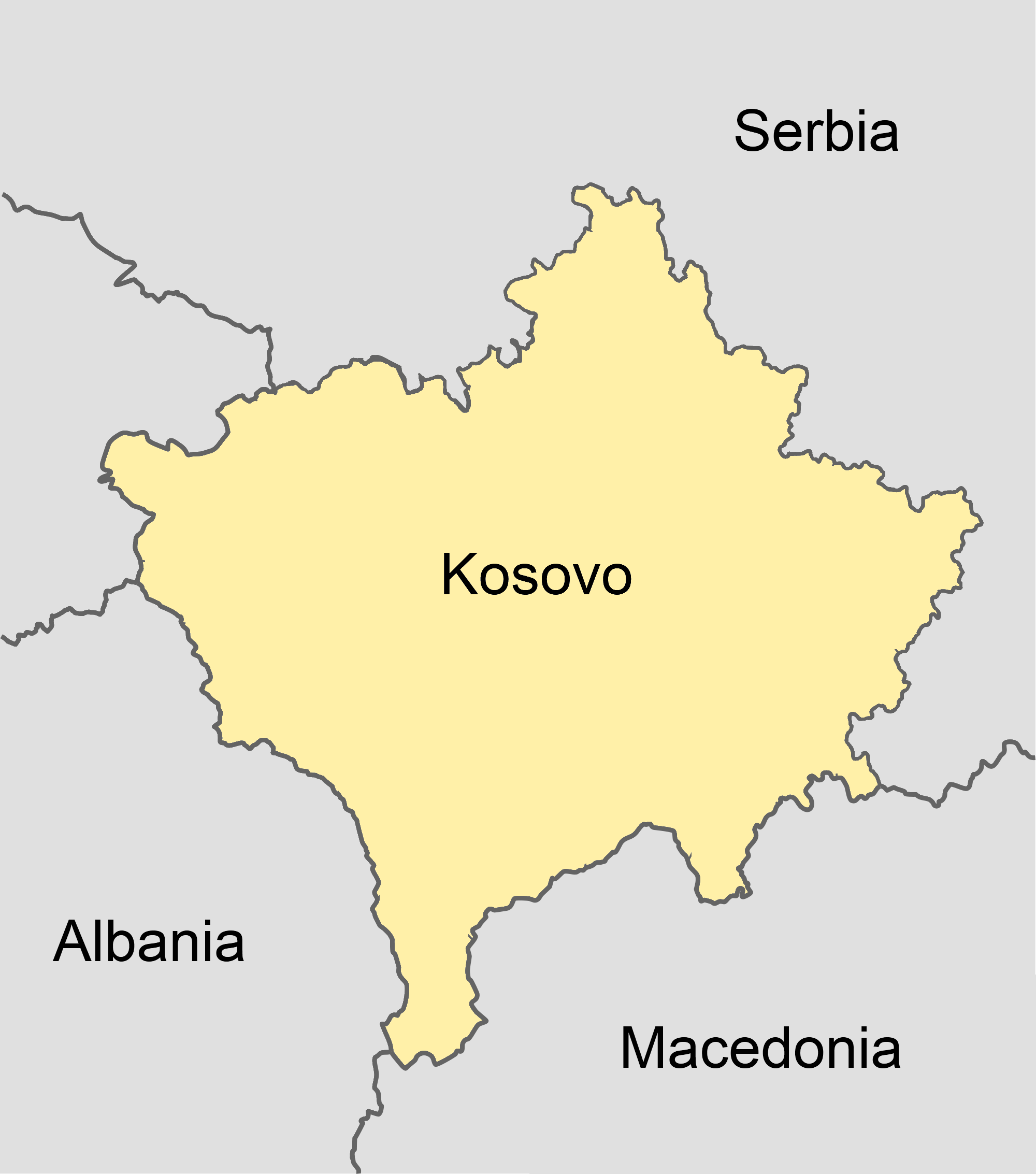 Hypothetical future territory of Kosovo, partitioned between Republic of Serbia and Republic of Kosovo